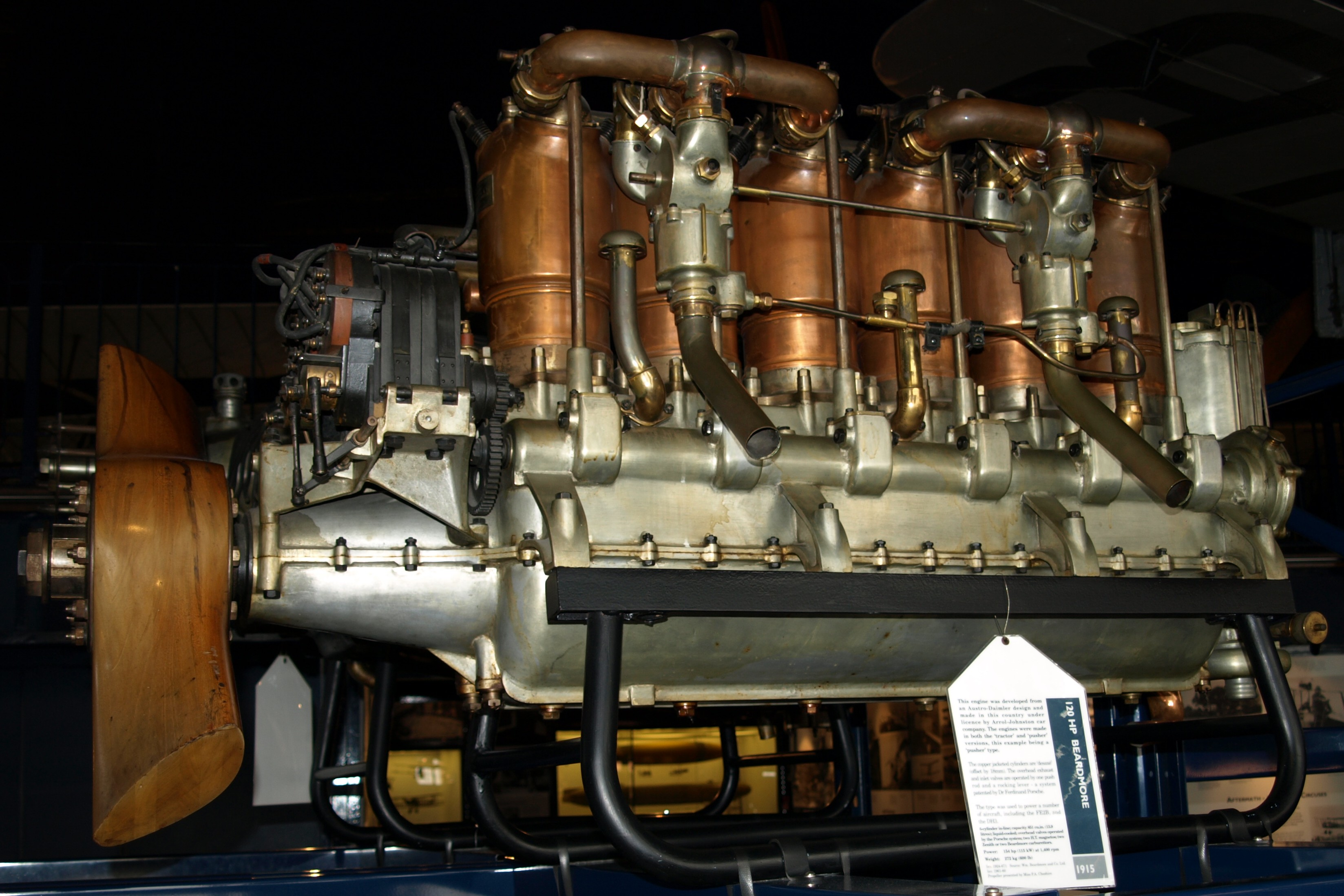 Beardmore 120 hp aero engine at the Science Museum, London